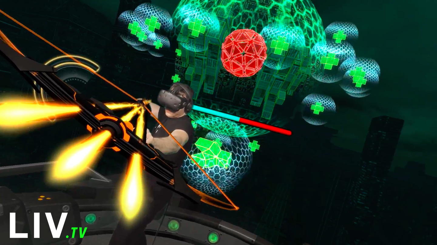 Someone in a virtual environment seen with a camera acting as a third person point of view.